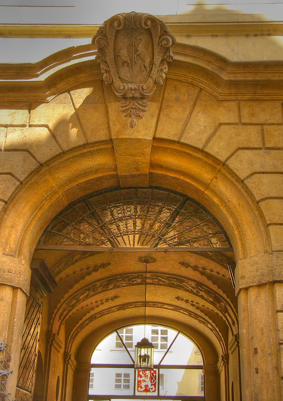 Palffy Palace on Malá Strana in Prague.